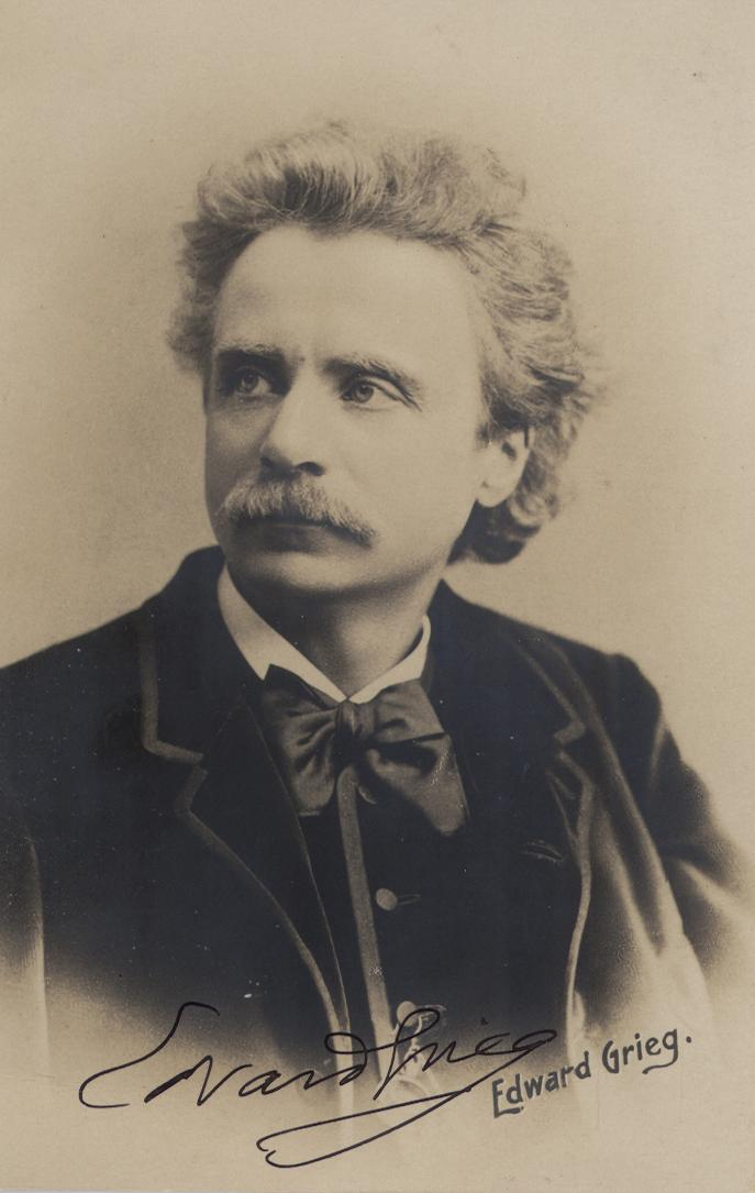 Artist: Axel Lindahl (1841–1906) Alternative names Axel Theodor LindahlDescriptionNorwegian-Swedish photographerDate of birth/death 27 July 1841 11 December 1906Location of birth Mariestad Work location Sweden & NorwayAuthority control : Q792251 VIAF: 73659895 ISNI: 0000 0000 4750 2770 LCCN: no2008043849 SELIBR: 404706 BNF: 16626912c WorldCat creator QS:P170,Q792251 Date/place: ca. 1876, Stockholm Subject: Edvard Grieg Medium: photographic positive/negative, B&W Notes: postcard with original signature Persistent URL: [#//nettbiblioteket.no/grieg-samlingen/engelsk/grieg_intro_eng.html” Original belongs to the Edvard Grieg Archives at Bergen Public Library]